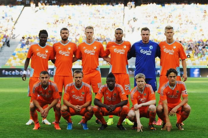 F.C. Copenhagen 2014